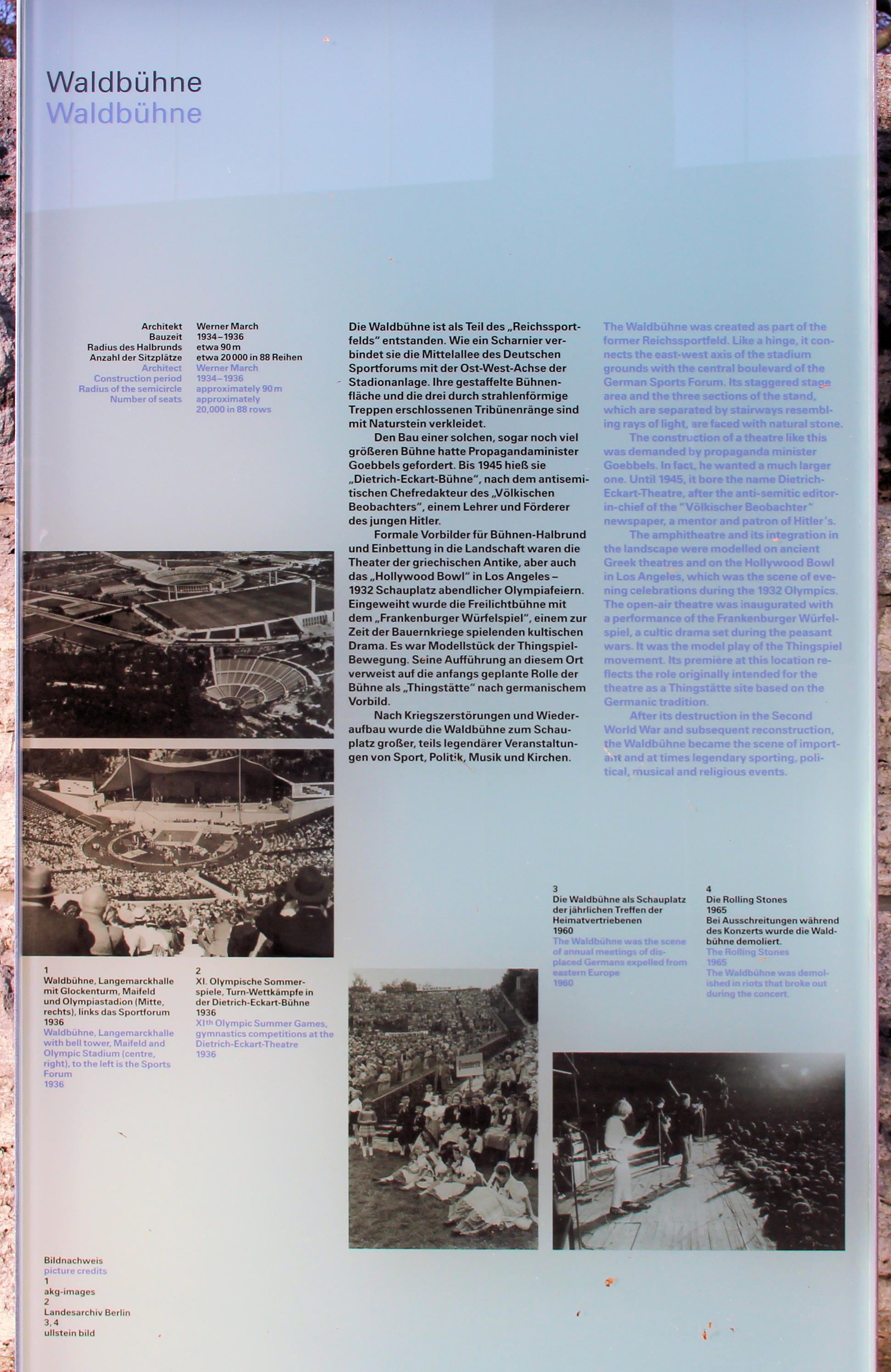 Memorial plaque, Berliner Waldbühne, Am Glockenturm, Berlin-Westend, Germany Koordinate:52°30′50″N 13°13′50″E / 52.51389°N 13.23056°E